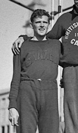 Empire Games - victory dais for the 120 yds men's hurdles